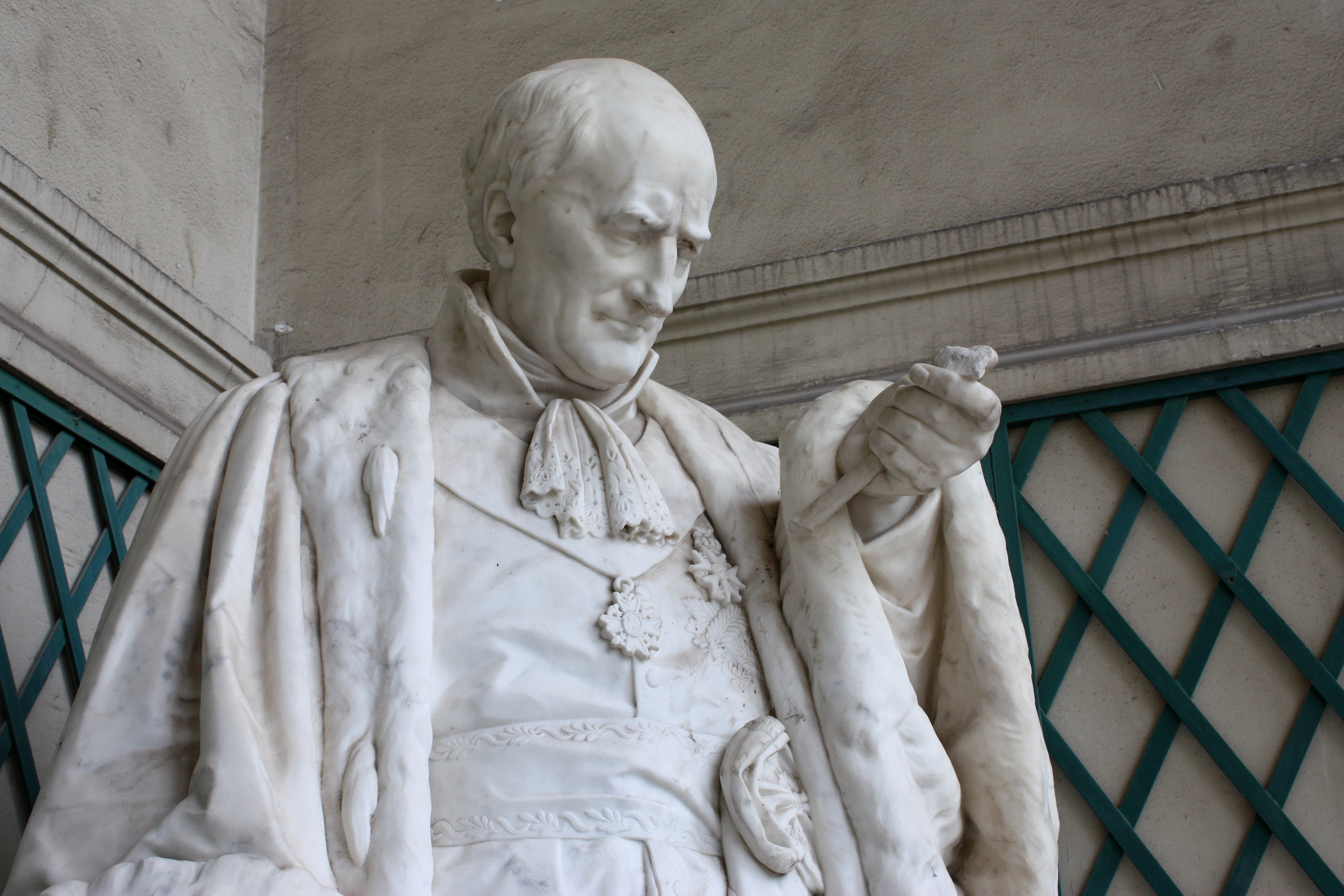 This statue of French botanist Antoine Laurent de Jussieu (1748-1836) had been ordered to sculptor Jean-François Legendre-Héral in the early 1840s by the French Ministry of the Interior in order to adorn the galerie de Minéralogie et de Géologie, a building of the French National Museum of Natural History, at the Jardin des plantes in Paris. At the time, when the statue was being ordered, the building had been recently inaugurated (in 1837) and was intended to receive the Museum of Natural History library, and also the botany, mineralogy and geology collections. Completed in 1842, this Legendre-Héral's statue was first exhibited at the Salon of the same year, at the Louvre, and then was moved to the entrance of the (at the time) Gallery of Botany, under the galerie de Minéralogie et de Géologie left pediment. The statue remained on site (shown here photographed in 2009) until 2013 when it was moved to its current location, at the entrance of the nowadays Gallery of Botany (inaugurated 1935). In the present day, visitors enter the Gallery of Botany through the pathway left between this Jussieu's statue and another statue which depicts botanist Michel Adanson (1727-1806).